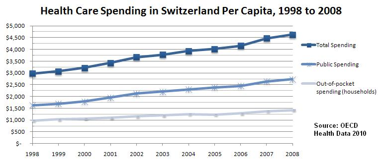 This image depicts health care spending in Switzerland per capita, in U.S. dollars PPP-adjusted, from 1998 to 2008. Publicly funded health care is distinguished between total expenditures. It should be noted that the out-of-pocket values are per household, which means that a direct comparison between all three lines would be misleading. An 'OECD Health Data 2010' report is used for the information, which is available here.